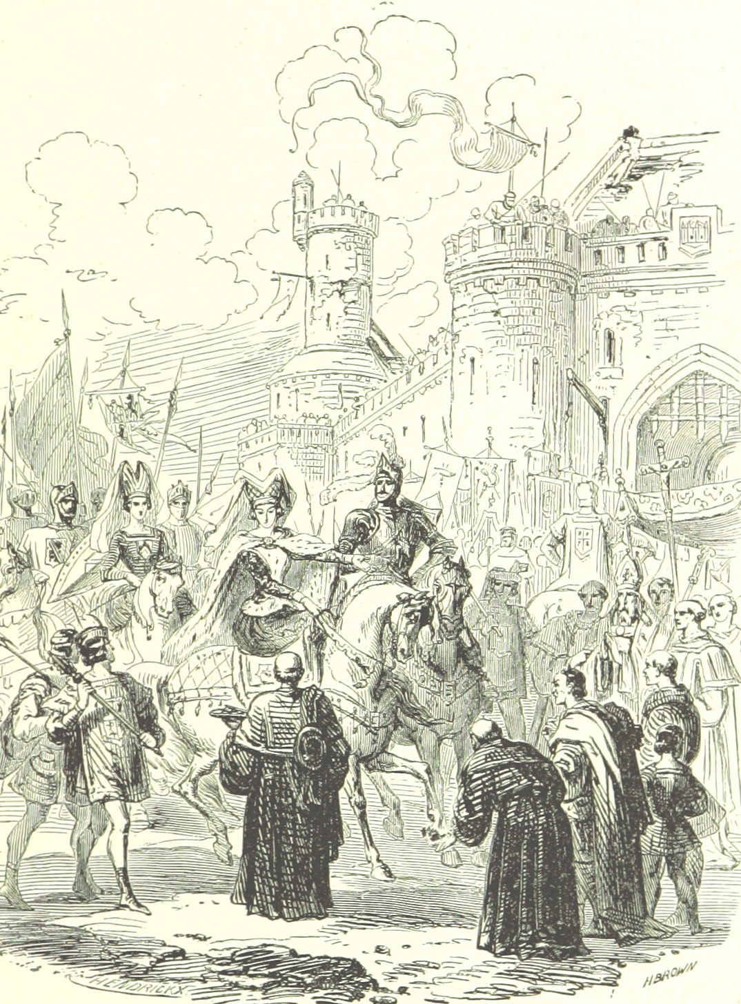 Entry into Mons of Jacqueline, Countess of Hainaut and her new husband Humphrey of Lancaster, 1st Duke of Gloucester